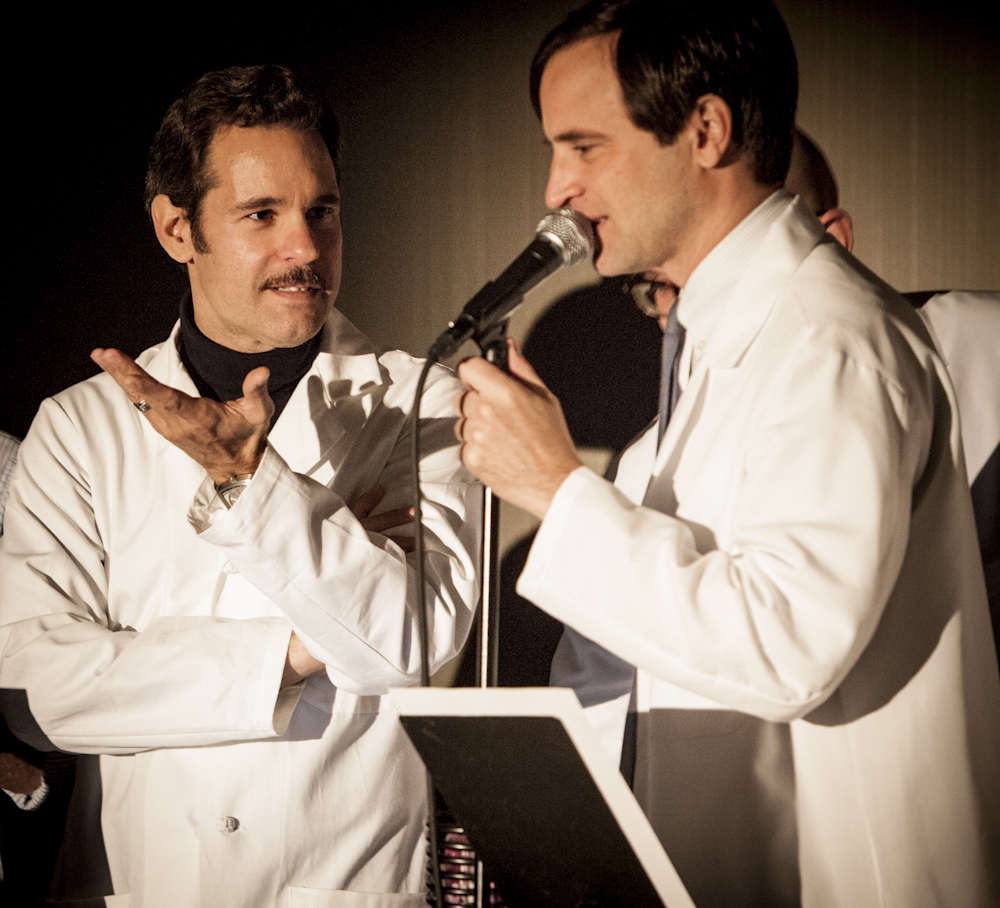 Paul F. Tompkins and Matt Gourley performing at the LA Podcast Festival in 2012 as part of Superego.